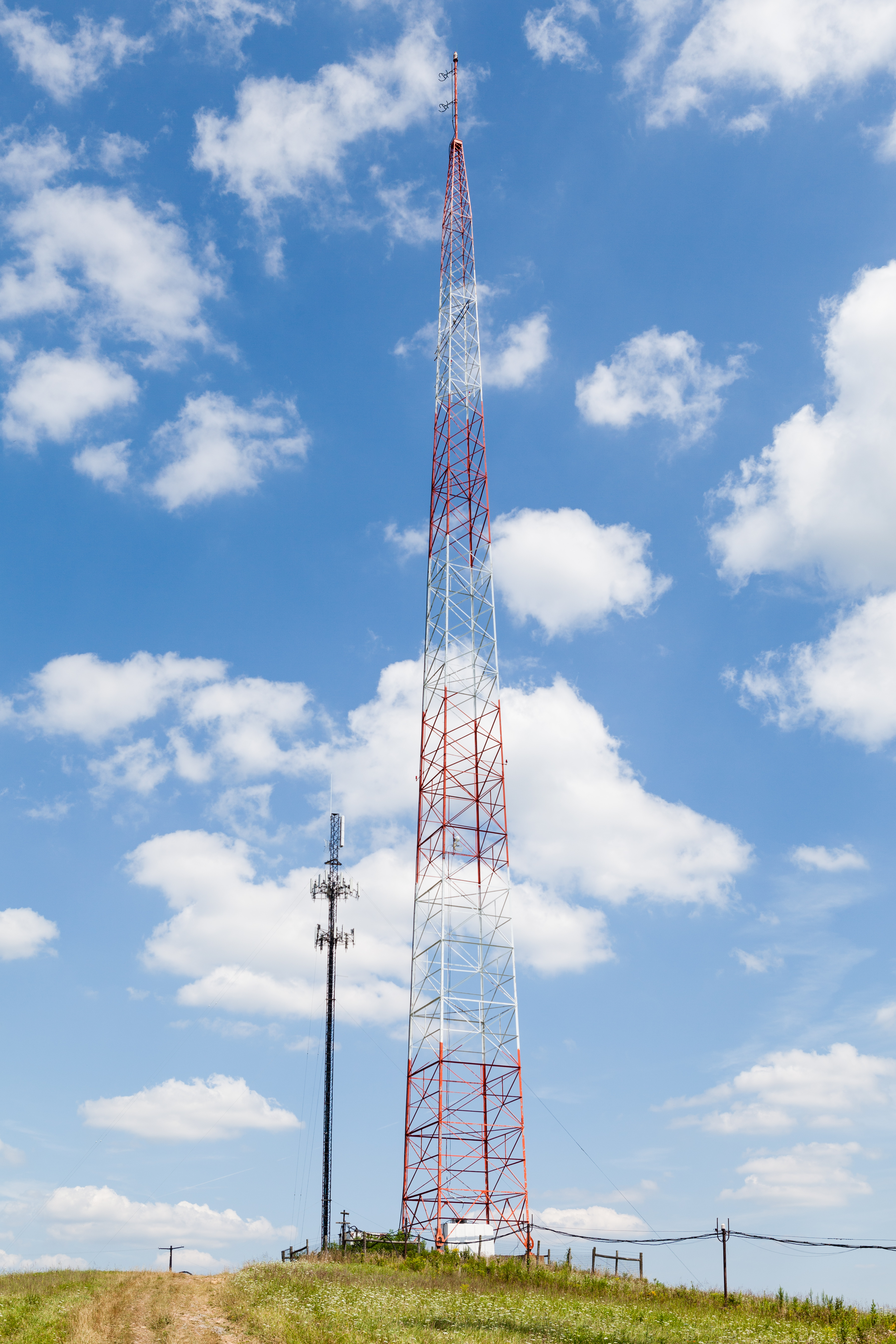 WJPA AM and FM antenna, located on Boyd Road in South Strabane Township, Washington County, Pennsylvania. Looking east.